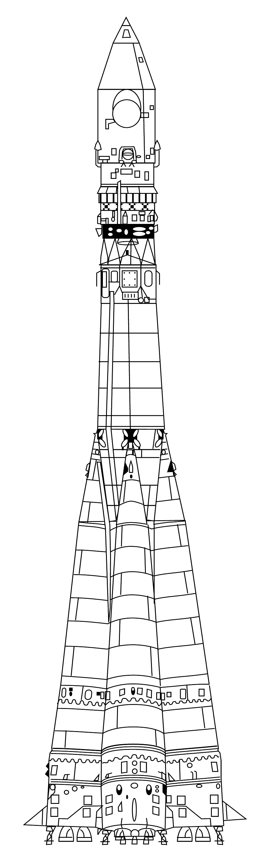 Vostok rocket. This is a two-and-a-half-stage derivative of the one-and-ahalf-stage rocket which launched Sputnik 1 (1957). Its original ancestor was the SS-6 “Sapwood” ICBM. It served as the basis for the Soyuz launcher (figure 1-7), in service today. Weight of payload launched to 200-km, 51° circular orbit is 4730 kg.